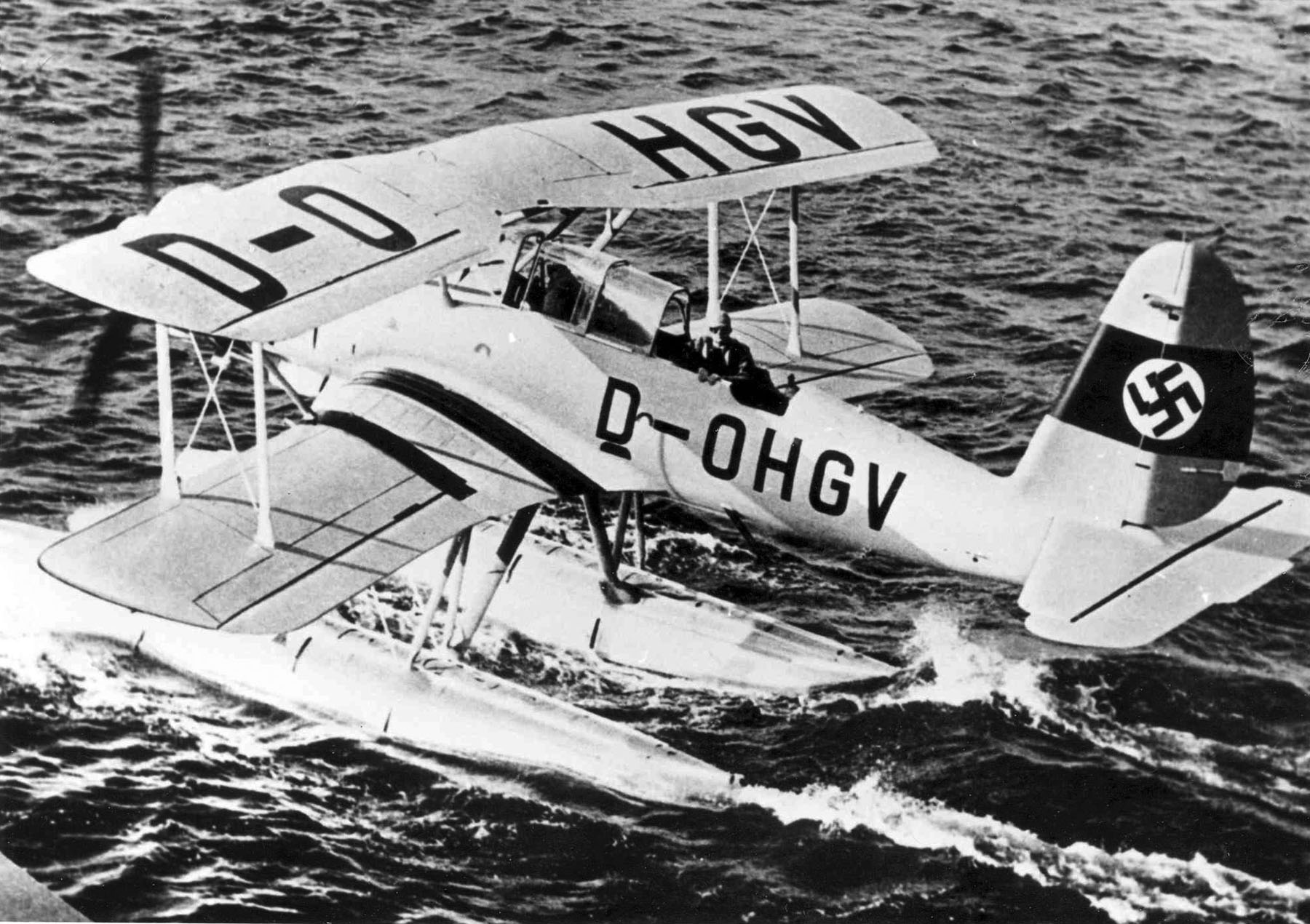 The German reconnaissance and patrol biplane Arado Ar 95 from the late 1930ies with its Aircraft registration D-OHGV.